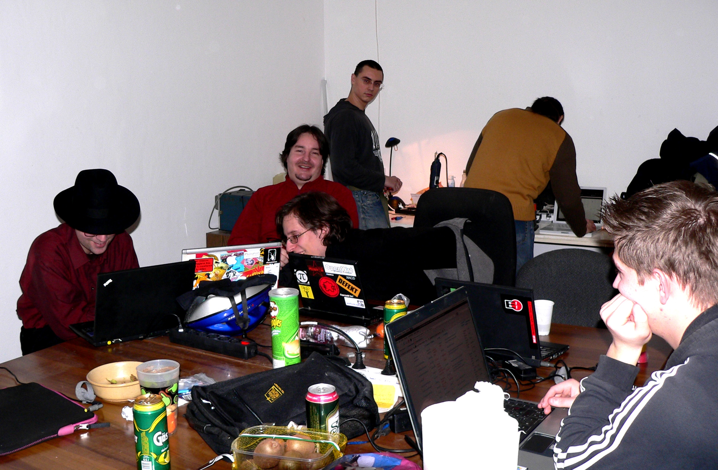 Scene from the H.A.C.K. hackerspace in Budapest